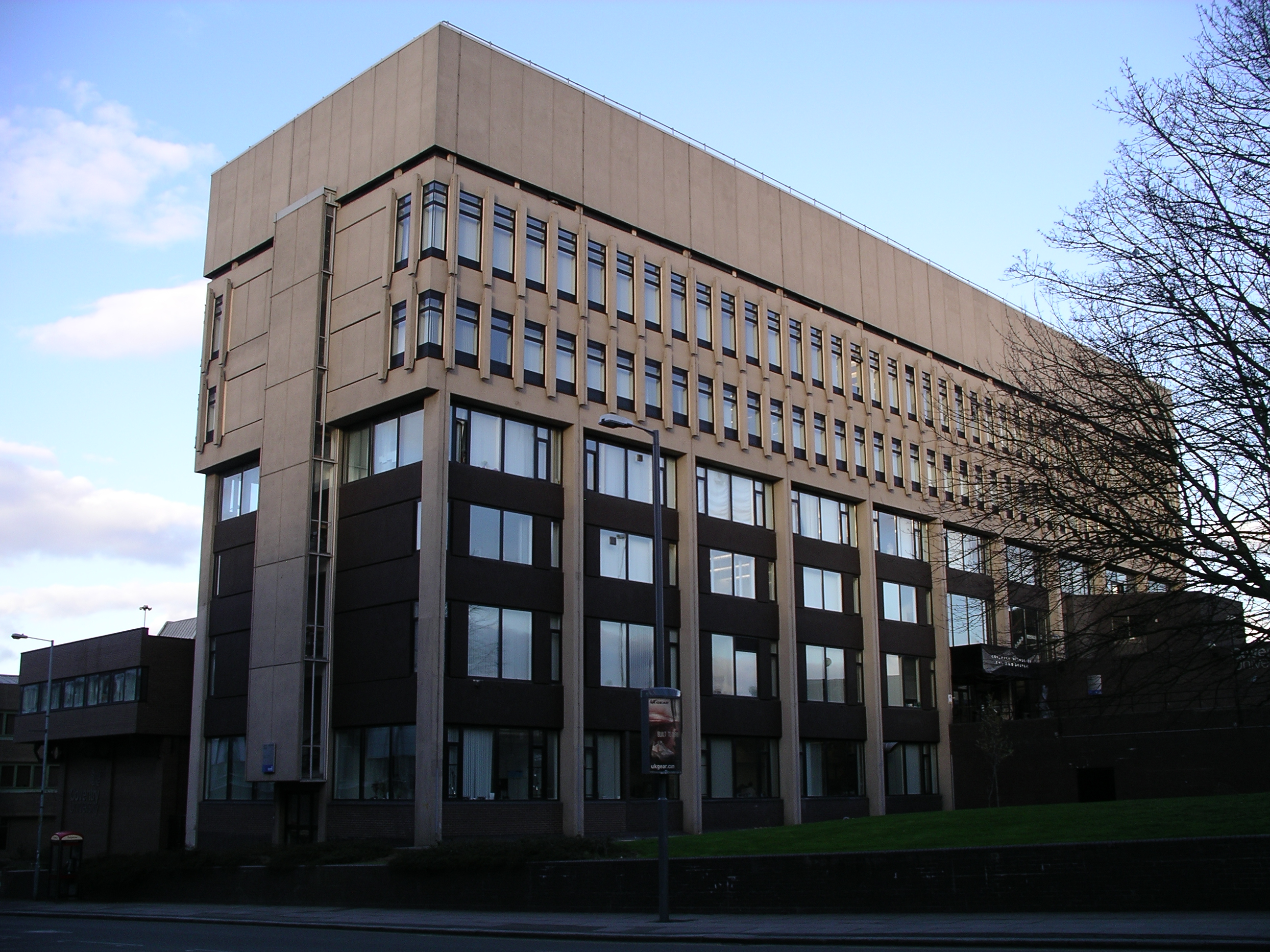 Grayham Sutherland Building, Coventry, England. It is part of Coventry University.